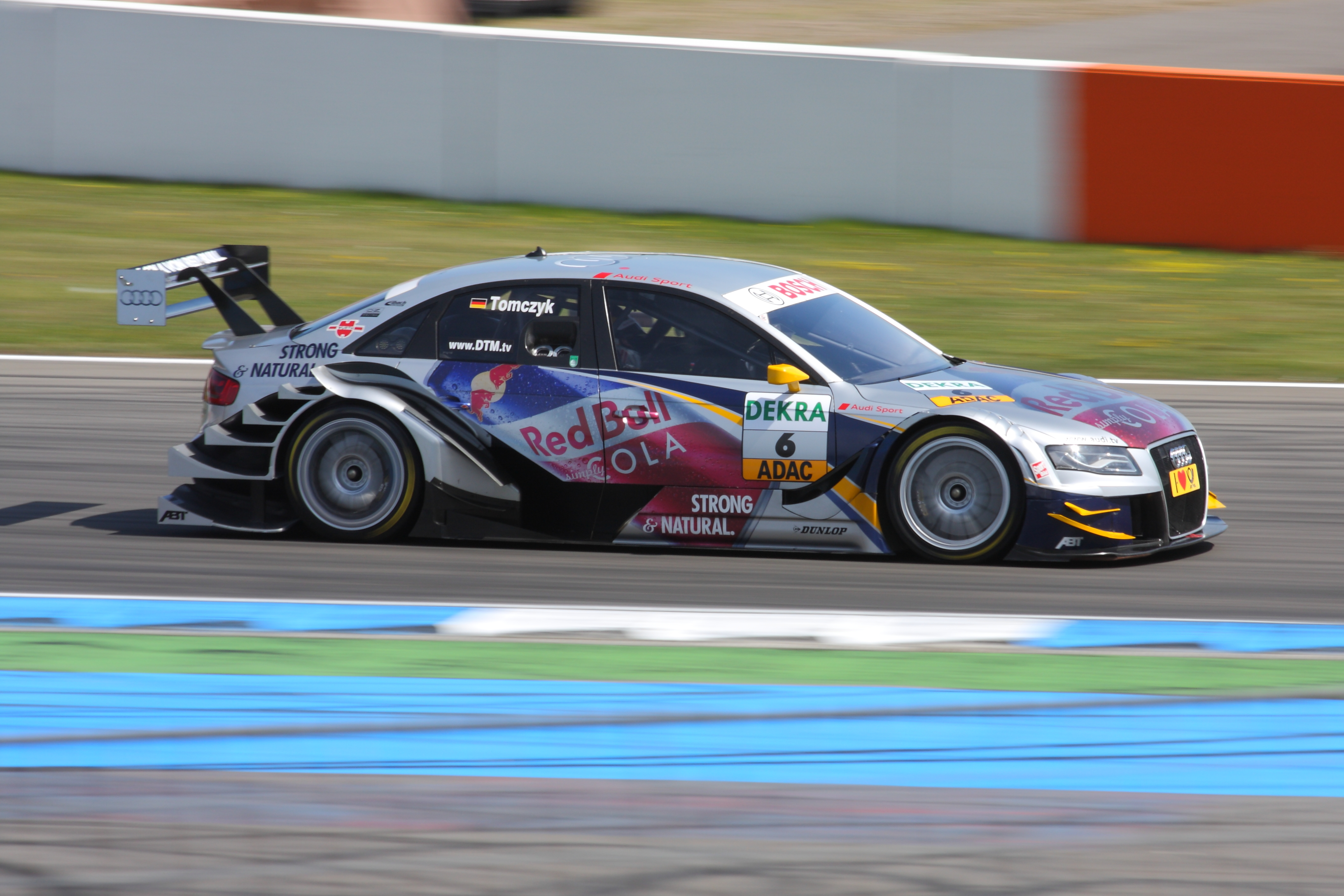 DTM Audi A4, Martin Tomczyk (driver)